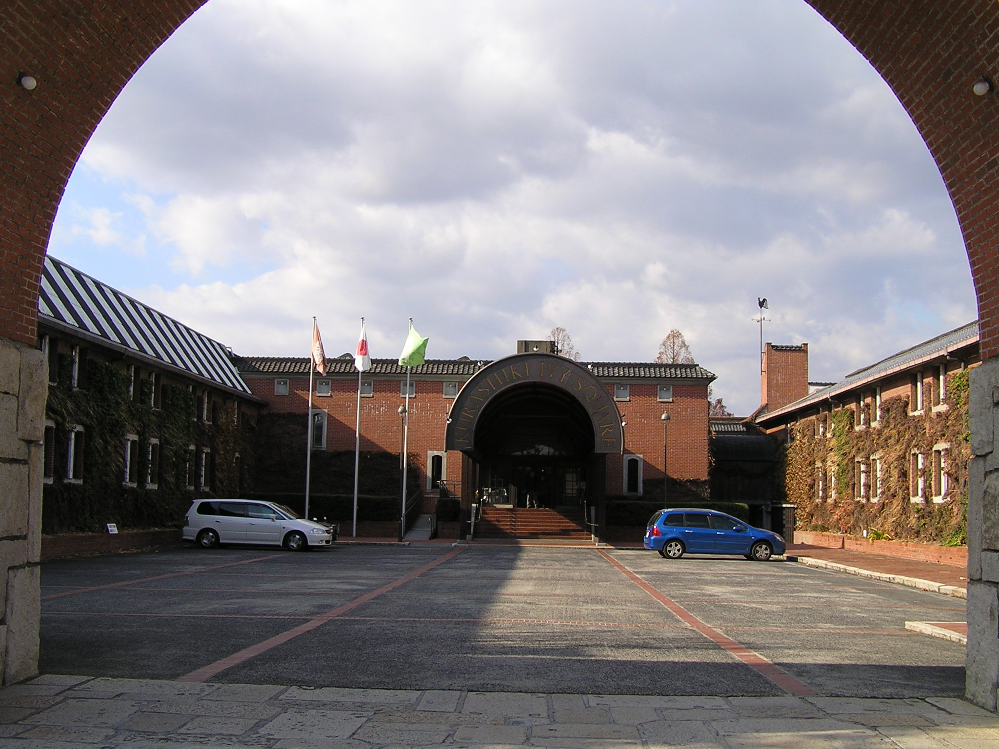 the front entrance of kurashiki ivy square